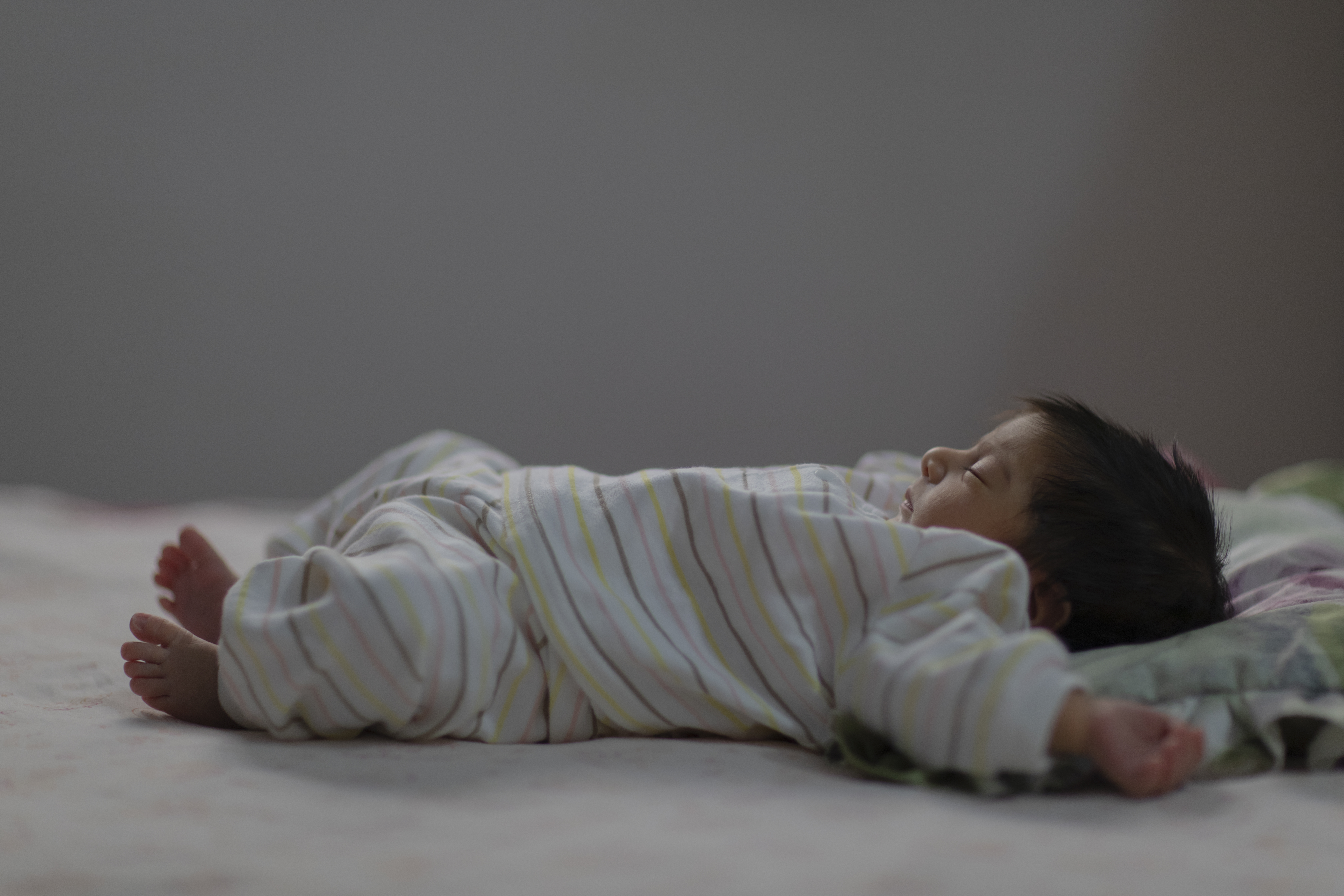 Biologically, a child is a human being between the stages of birth and puberty, or between the developmental period of infancy and puberty.